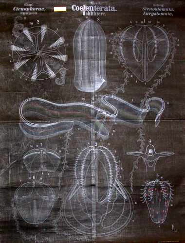 Plate LXXIV: Coelenterata. Class: Ctenophora - "This unusual chart comes from a series on invertebrates published by the famed German zoologist and parasitologist Rudolph Leuckart. Popular worldwide at the time of their publication, Leuckart’s charts are recognized today because of their beauty and because the series is so extensive (there are 101 charts in the series on invertebrates). The fine lines of the white-on-black illustration highlight the comb jellies’ transparent bodies and the rows of delicate cilia that they use for locomotion. The multiple figures on this chart depict aspects of the organism’s morphology, its locomotion (Fig. 4 , near the center of the chart, shows Cestus Veneris' snake-like movement), and developmental stages."